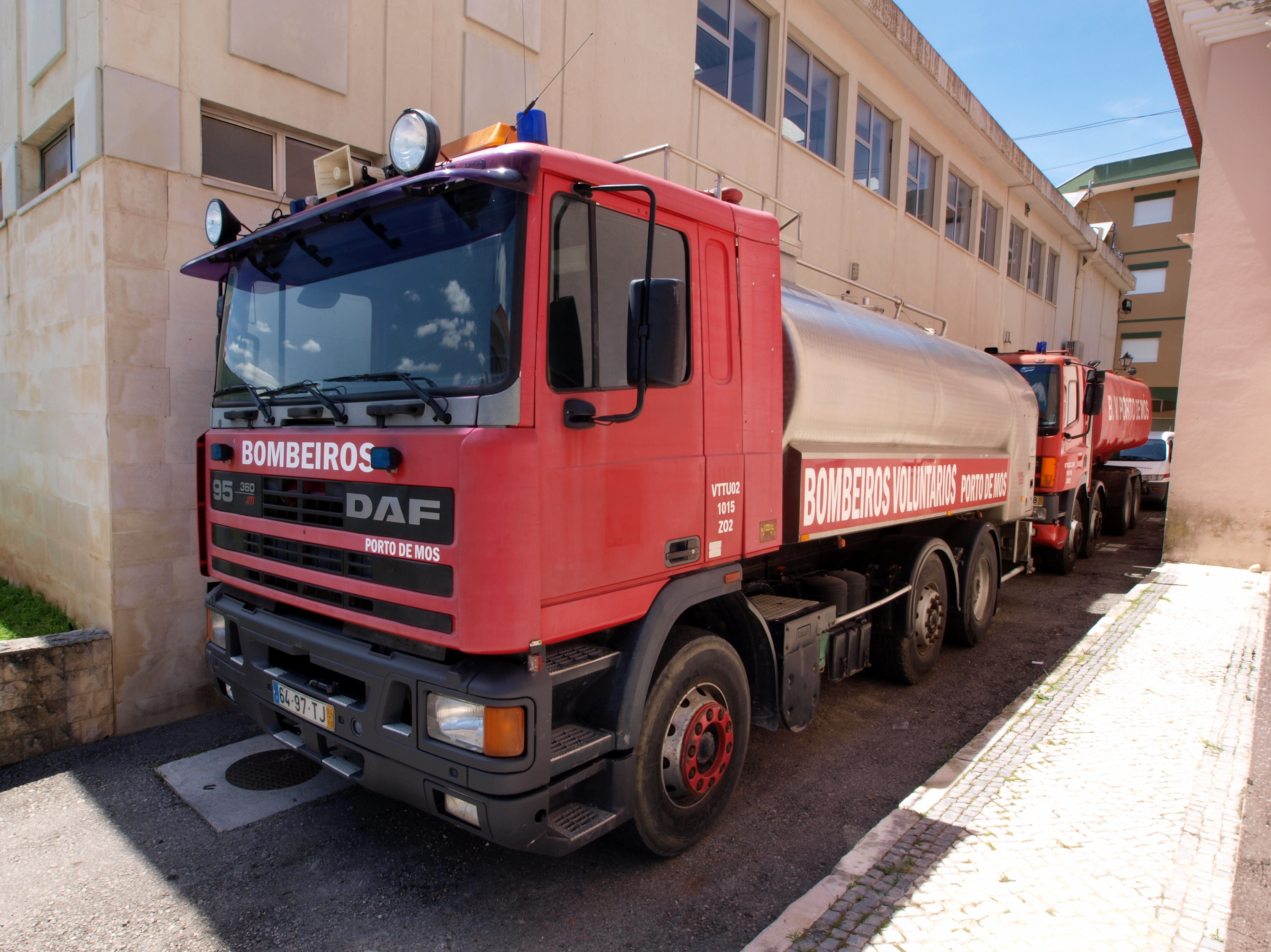 Photographed in Portugal.